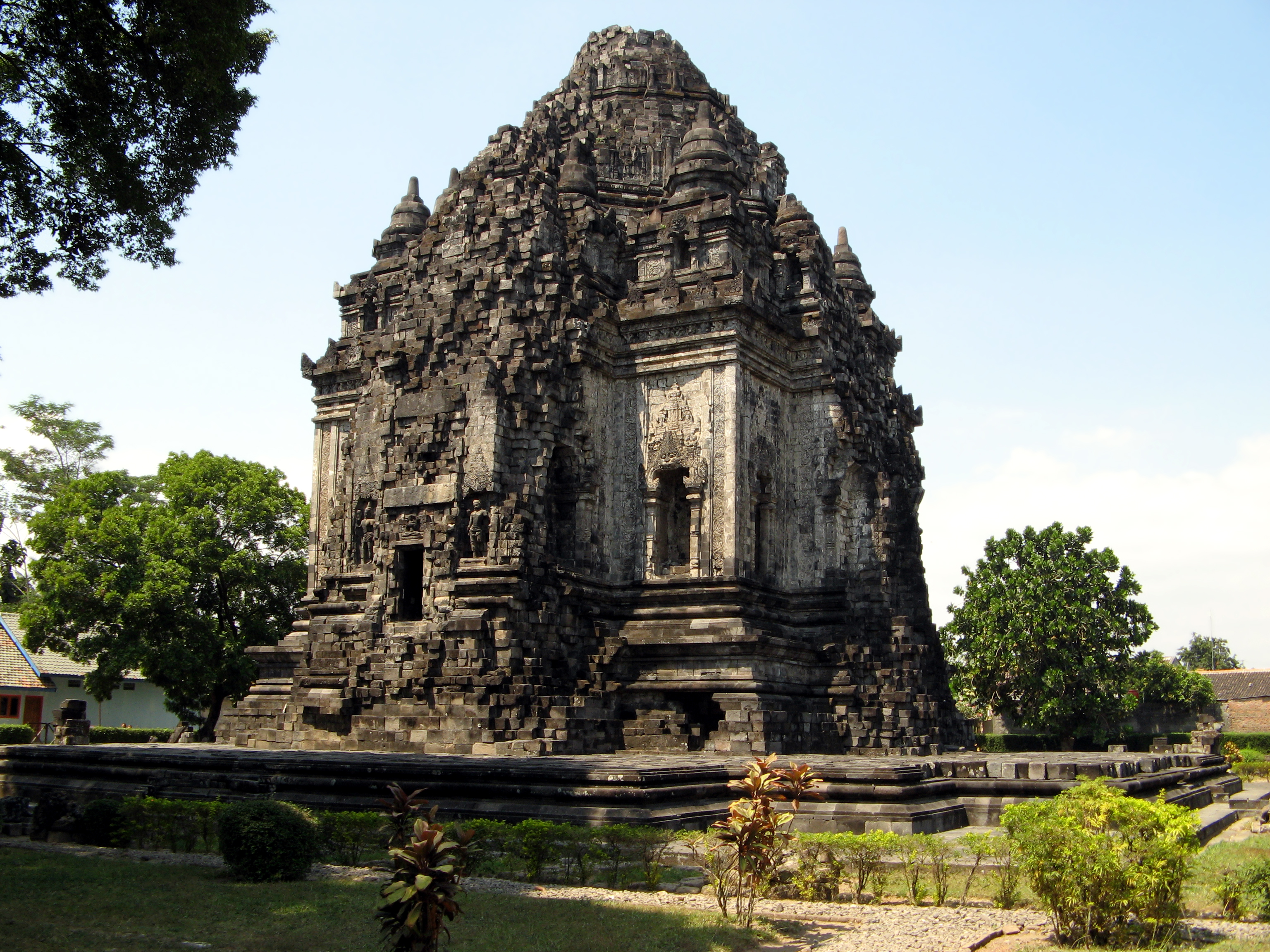 Candi Kalasan is located in the area of Prambanan, a few km NE of Yogyakarta. The temple is dated by inscription to 778 AD, and is dedicated to Tara. It has been only partially restored, but is notable for some fine remaining carvings. The current view of the temple grounds is quite misleading; originally the temple was surrounded by 52 stupas, that contained caskets and other funerary remains on the grounds of this large royal cemetery. The north face of the temple is seen here.